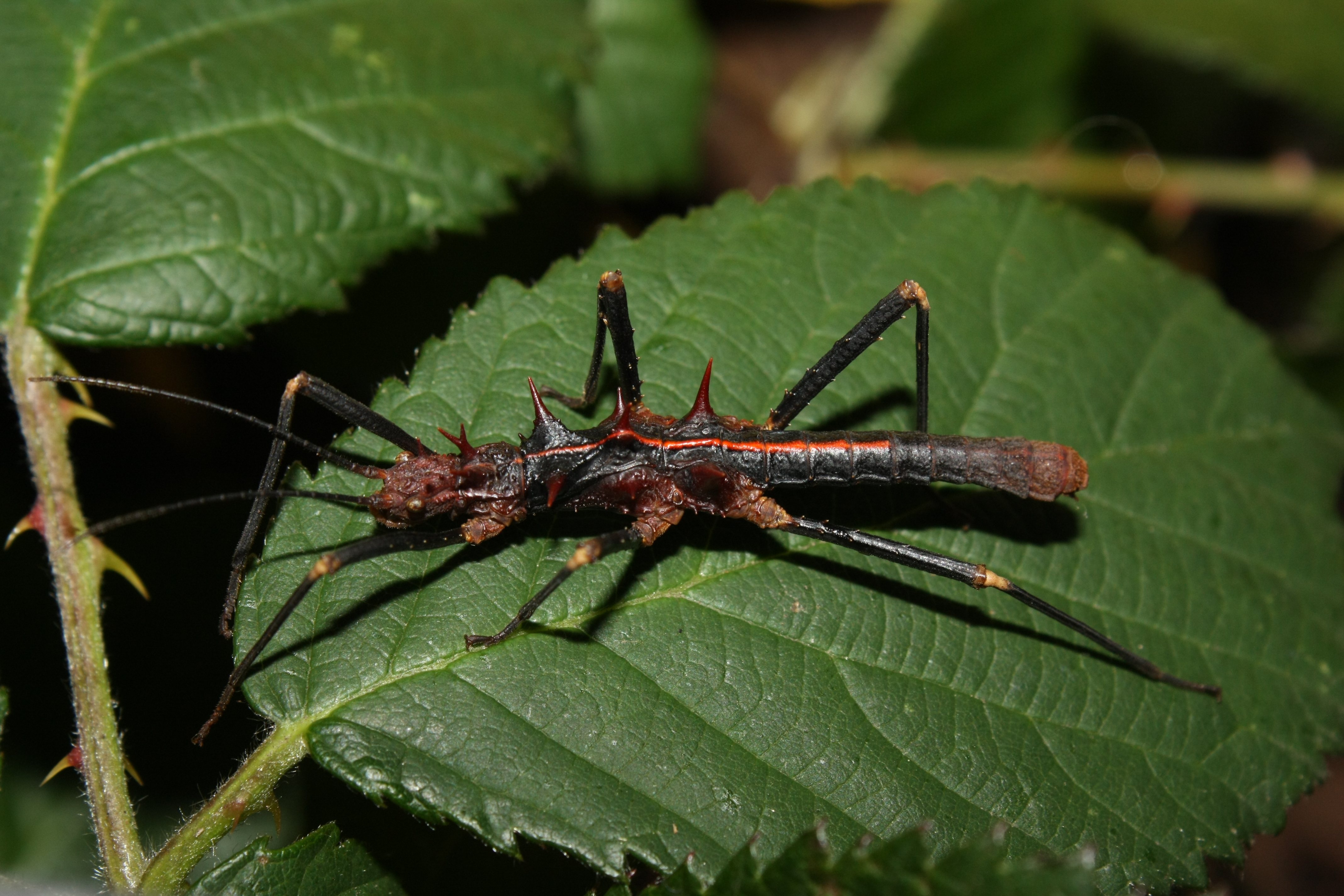 Male of Gecko Stick Insect (Hoploclonia gecko)